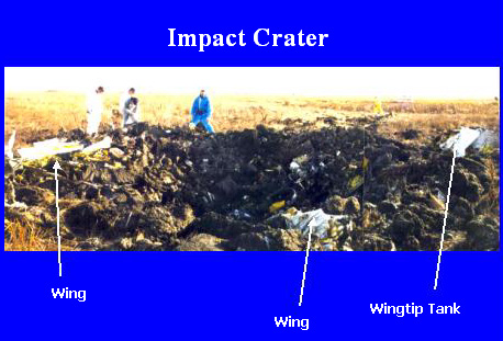 N47BA crash scene